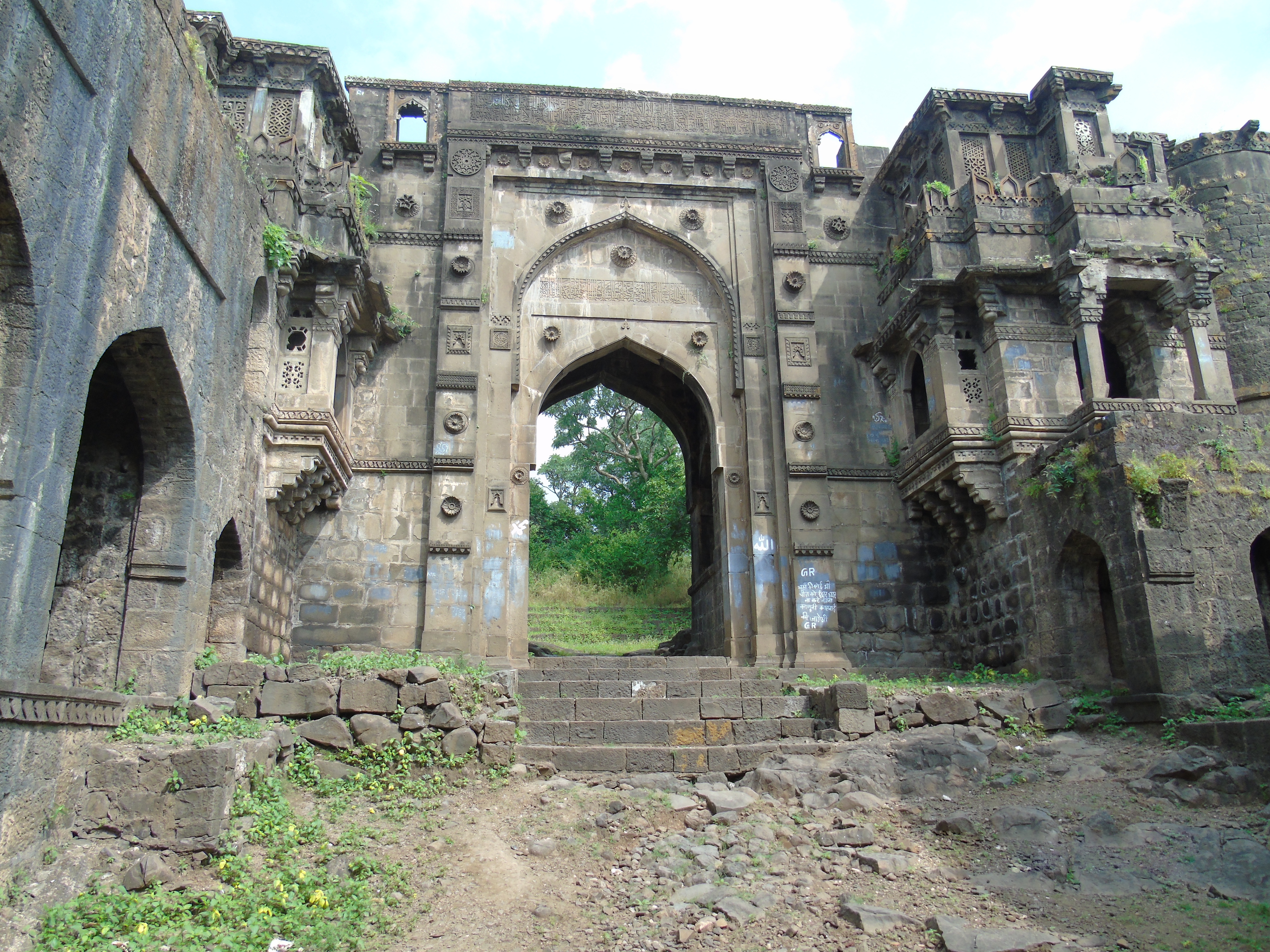 This is main gate to this large Triple fort